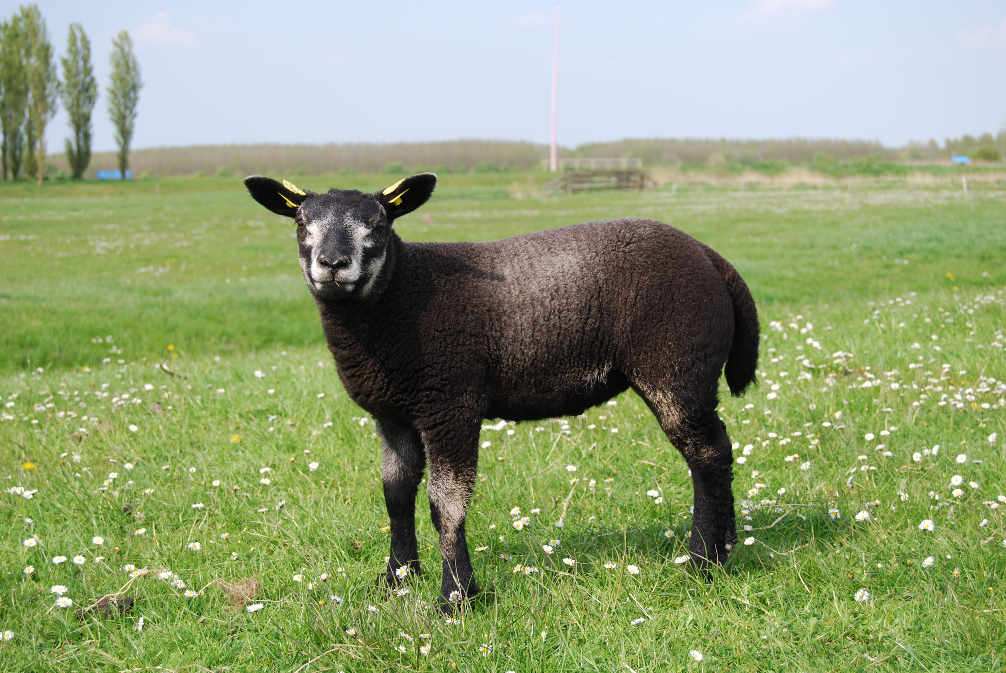 Blue texel lamb